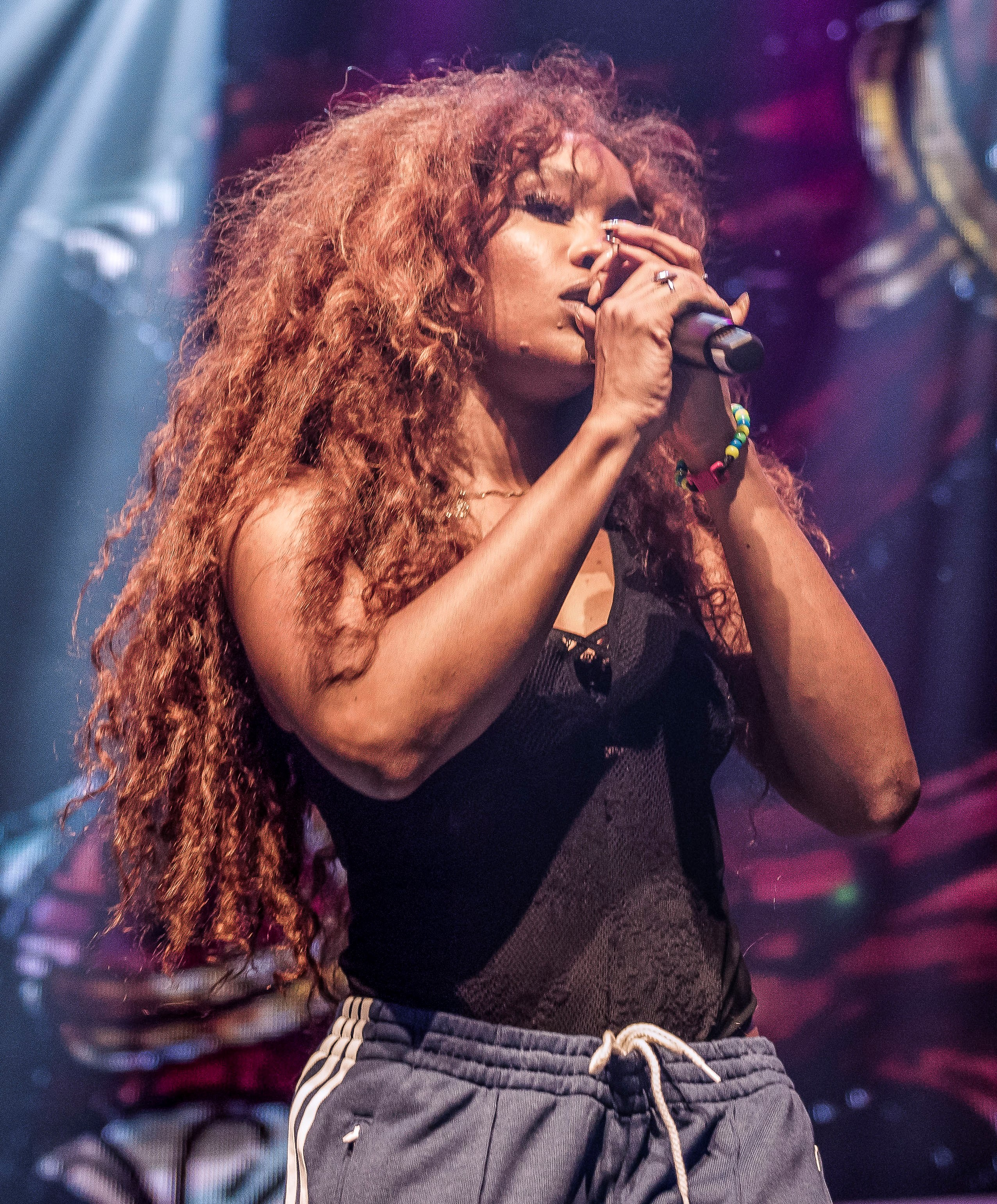 American singer SZA performing during her CTRL the Tour in Toronto on August 23, 2017.